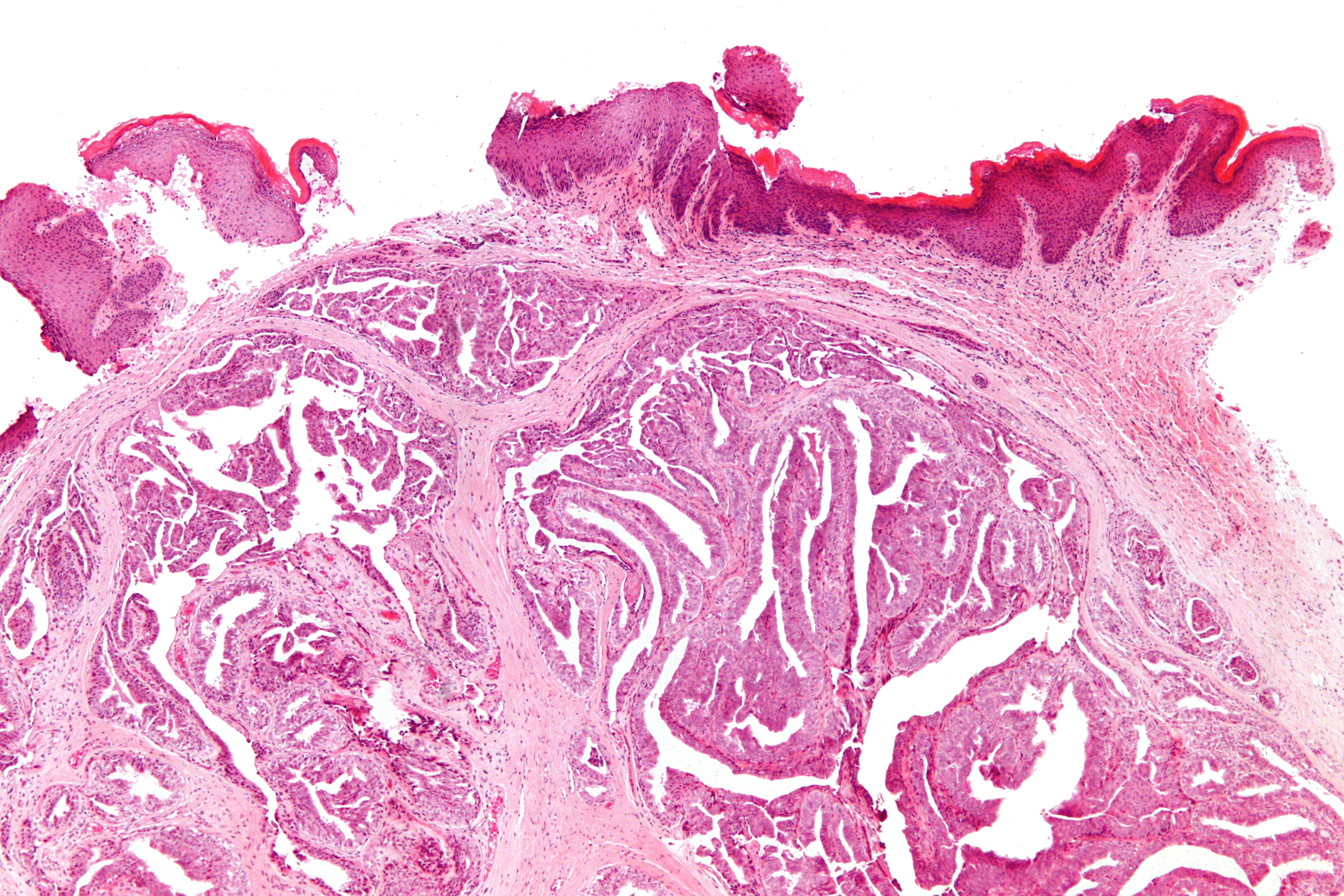 Low magnification micrograph of a papillary hidradenoma (abbreviated PH), also hidradenoma papilliferum. H&E stain. PHs are benign tumours classically found in the vulva. They are well-circumscribed dermal lesions with cystic spaces that are characterized by papillae (nipple-like structures with fibrovascular cores) and lined by an epithelium with apocrine differentiation (as is evident by the presence of apocrine snouts). Related images Low mag. Intermed. mag. High mag. Very high mag.